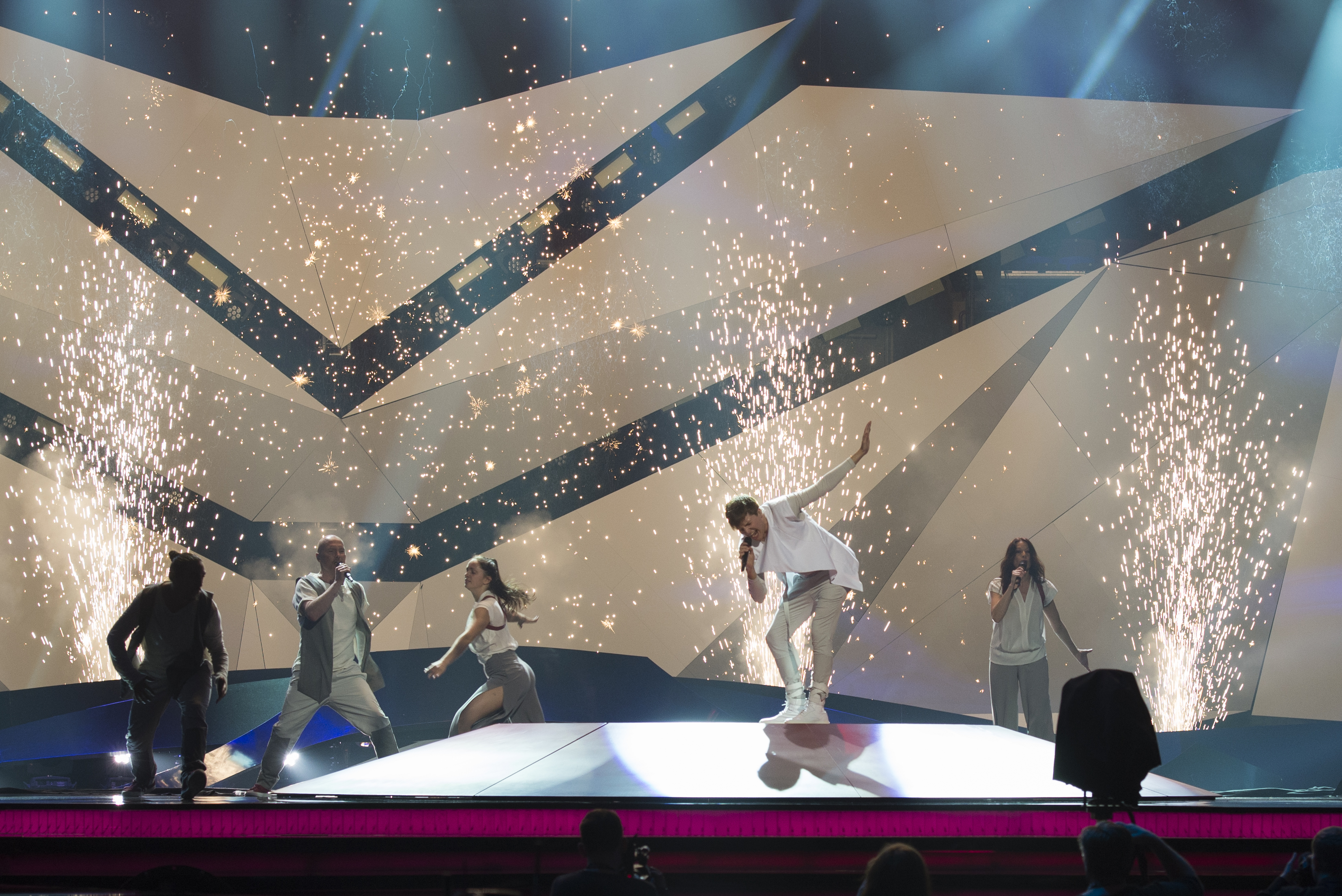 Robin Stjernberg representing Sweden with the song "You" during the first dress rehearsal of the final of the Eurovision Song Contest 2013 in Malmö. (Help translate this text)